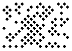 The text "Wikipedia" encoded as a DotCode as define by the AIM DotCode Symbology Specification Rev 3.0.